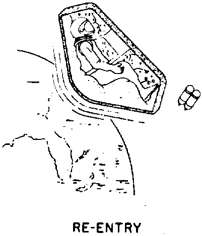 Figure 110.6 MOOSE Operation. Re-entry